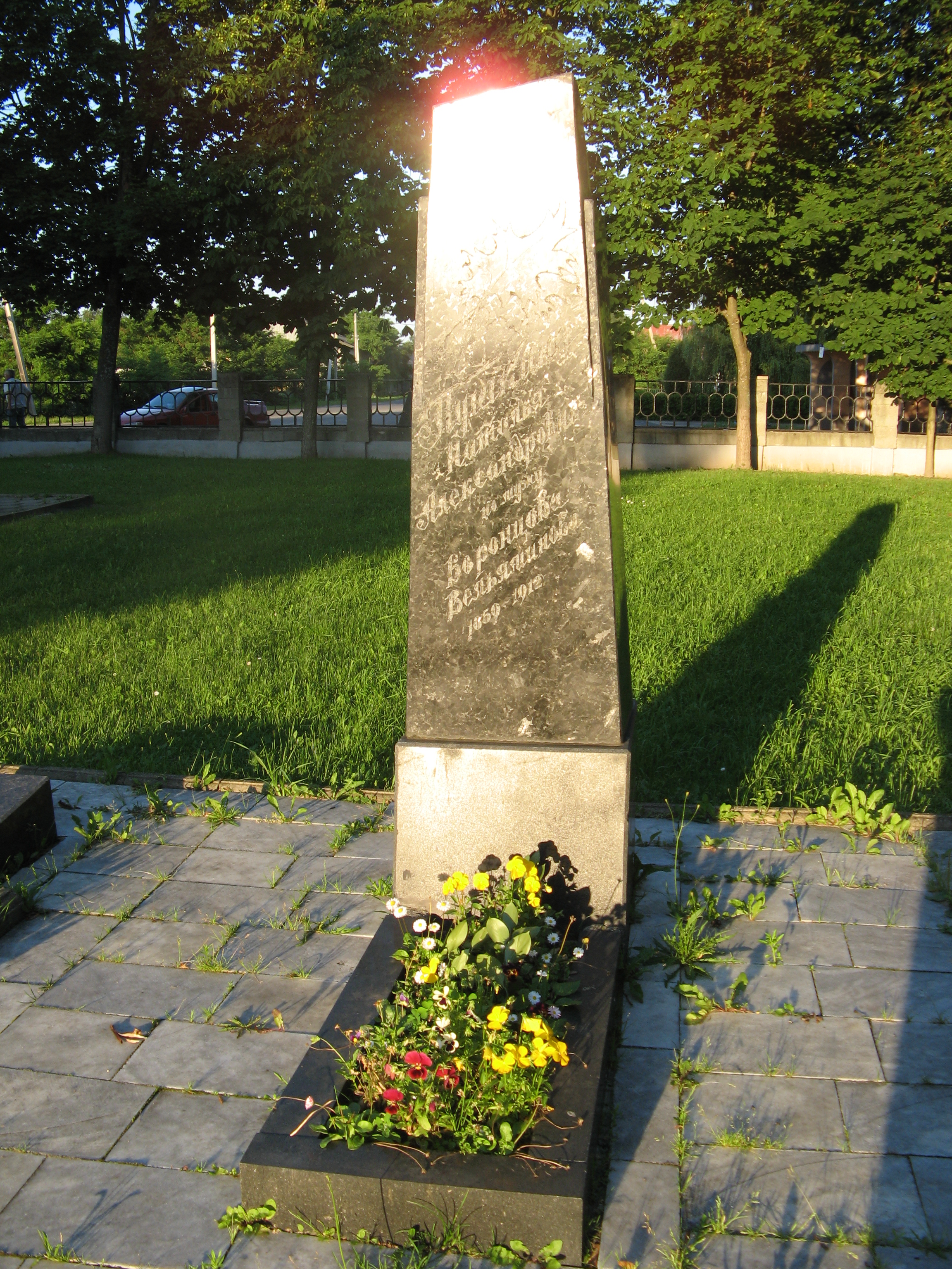 The tomb of Natalla Varancova-Vieljaminava (nee Puškina) (1859-1912), granddaughter of Russian poet Alexander Pushkin. Situated in Ciałuša (Babrujsk region, Belarus)